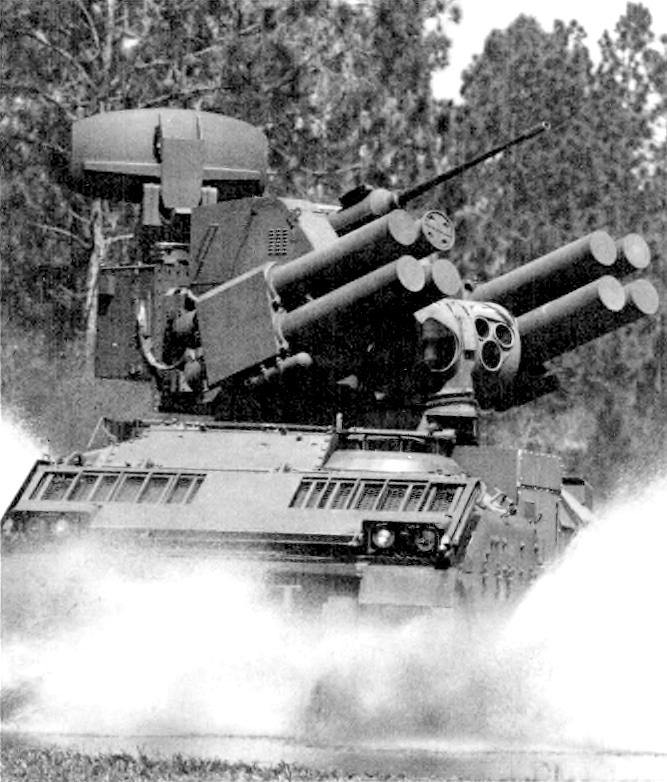 ADATS fording, tracking targets simultaneously on the move